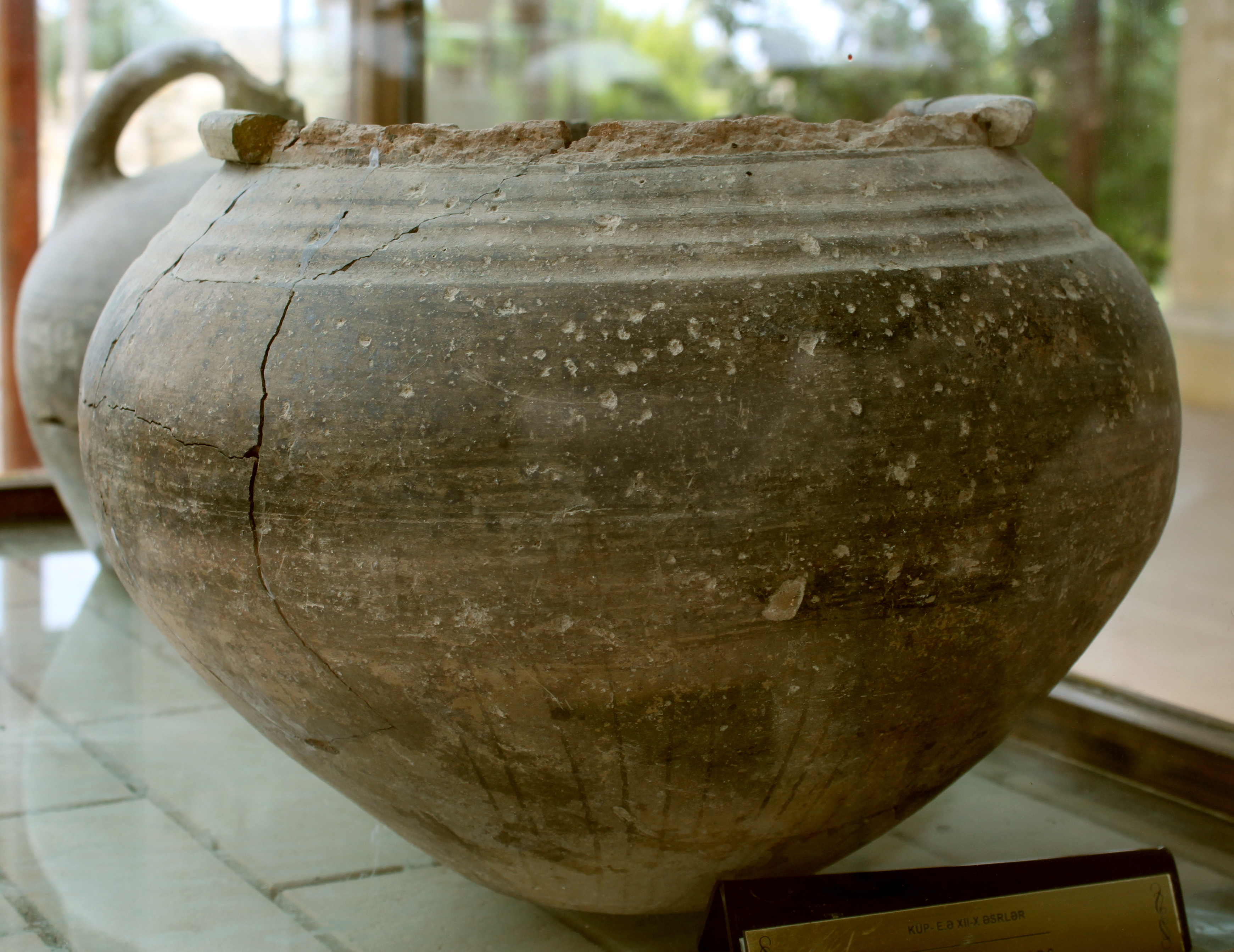 poll b.c. XII-X centuries from Nakhchivan